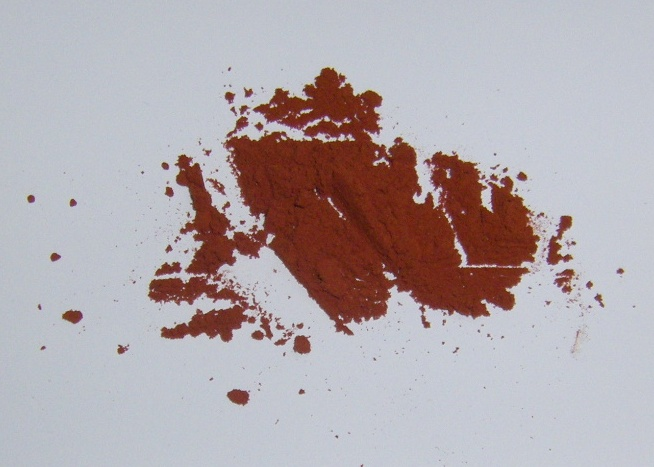 Photograph of a sample of Wilkinson's catalyst, [RhCl(PPh3)3]. I made this sample in my Chemistry lab.